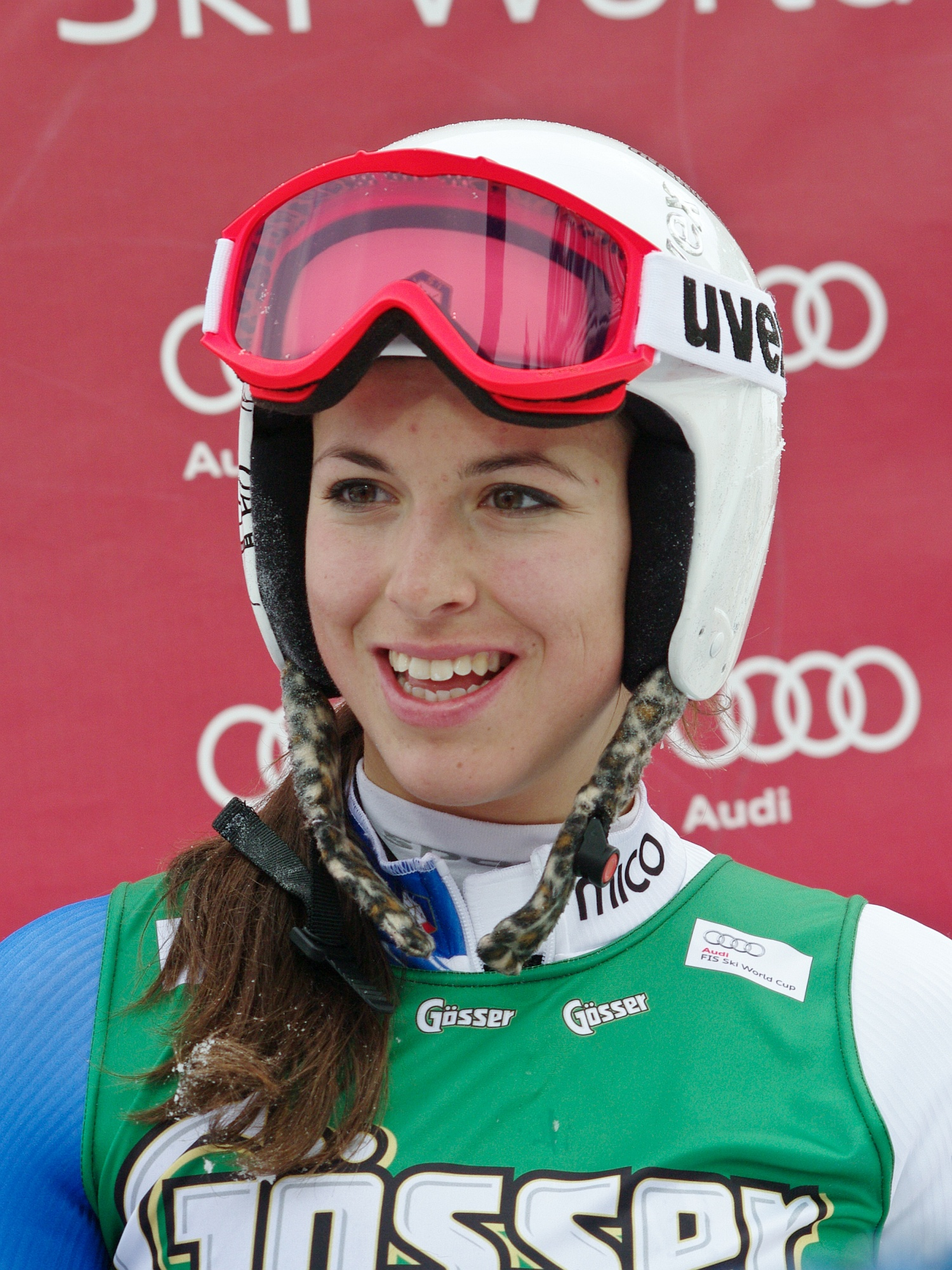 Italian alpine skier Elena Curtoni after the first run of the Giant Slalom in Semmering (Austria) on 28 December 2010.